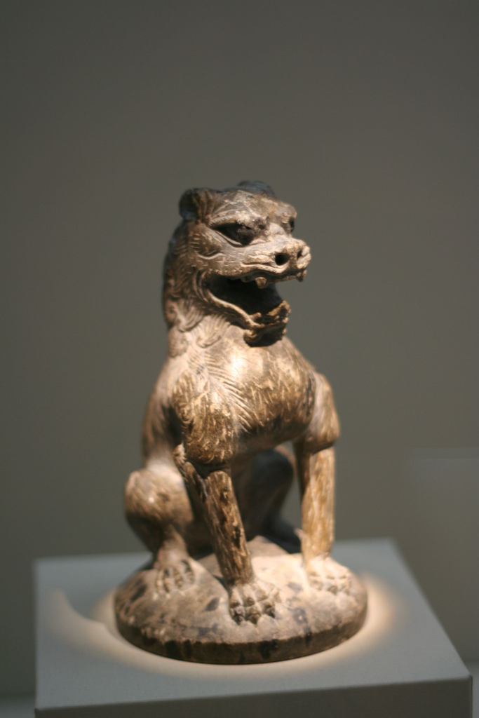 Gyeongju National Museum in Gyeongju, South Korea